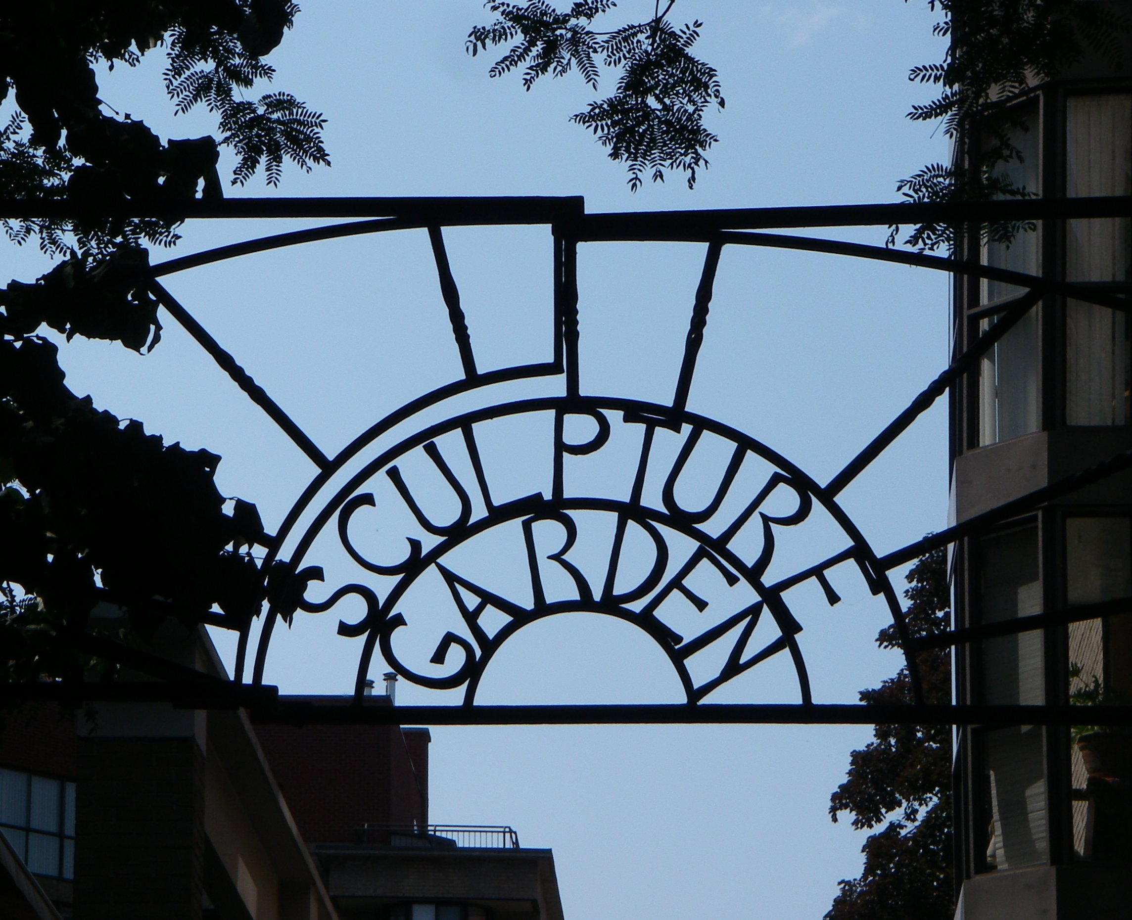 Picture I took of the sign above the entrance gate Toronto/Canada More pictures are in